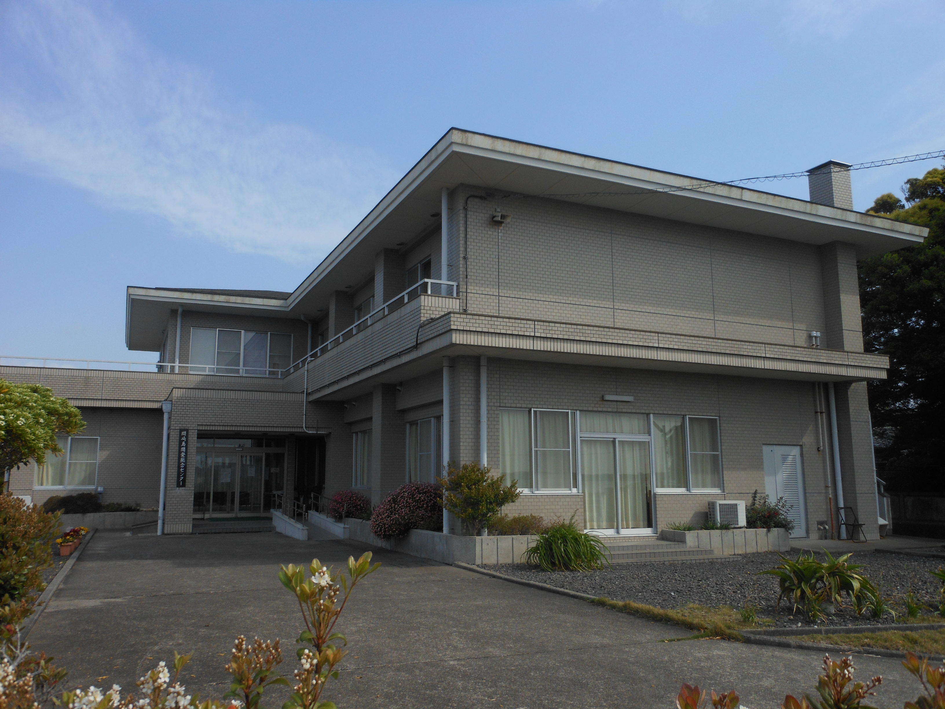 This building is the Masaki Island General Develop Center in Masaki island, Shima, Mie, Japan.